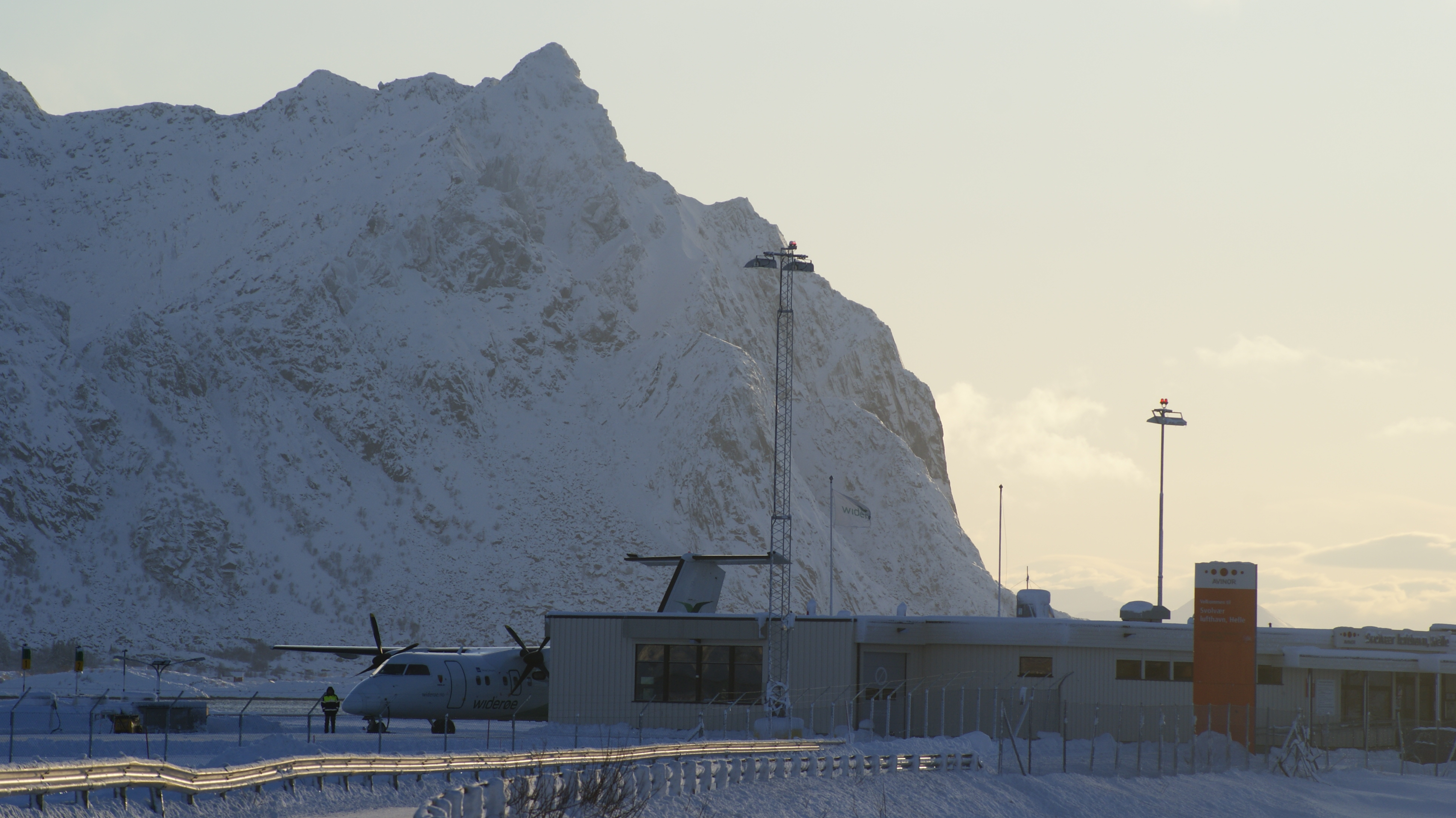 Svolvær Airport, Lofoten, Nordland, Norway. Widerøe de Havilland Canada Dash-8 103 parked on the tarmac. Mountains of Litlemolla in the background.